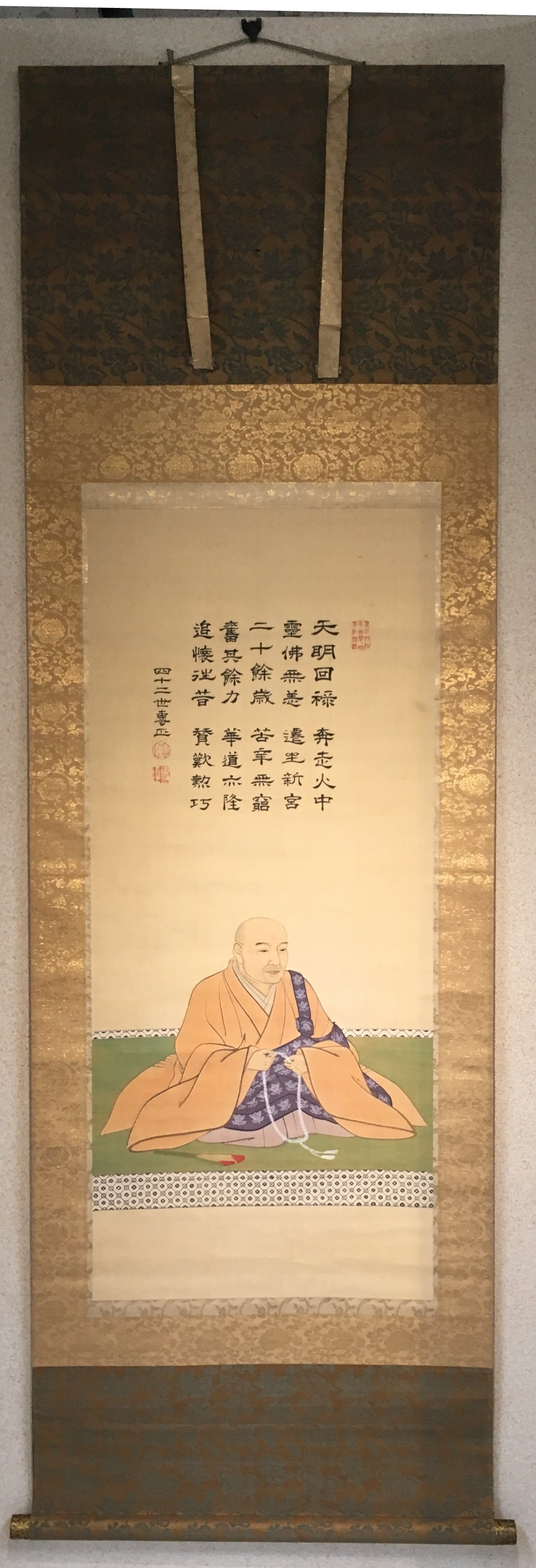 Hanging scroll depicting Ikenobō Senjō